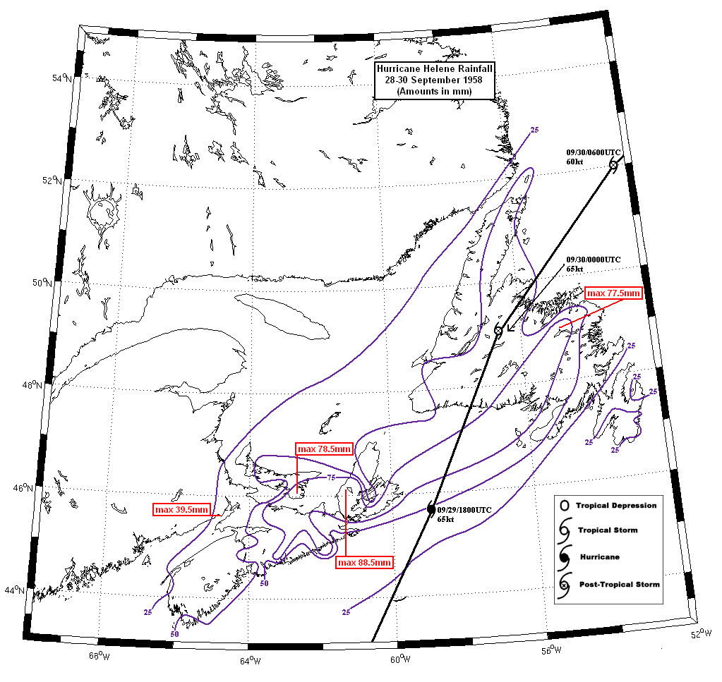 From the Environment Canada's image description page: "Rainfall image map of Hurricane Helene, which entered the Canadian Hurricane Centre Response Zone on September 28, 1958, and then Canadian waters shortly after midnight on September 29, 1958. Helene made landfall in Newfoundland later that afternoon and eventually left the Canadian Hurricane Centre Response Zone on September 30, 1958 and diminished on October 4, 1958. Maximum provincial rainfalls: 39.5 millimetres in New Brunswick, 78.5 m in Prince Edward Island, 88.5 millimetres in Nova Scotia and 77.5 millimetres in Newfoundland" As requested by the original creator of the file, this reproduction is a copy of an official work that is published by the Government of Canada and that the reproduction has not been produced in affiliation with or with the endorsement of the Government of Canada.